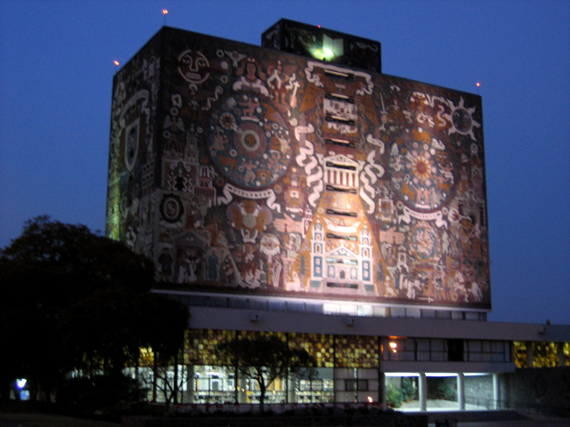 Central library of the National Autonomous University of Mexico